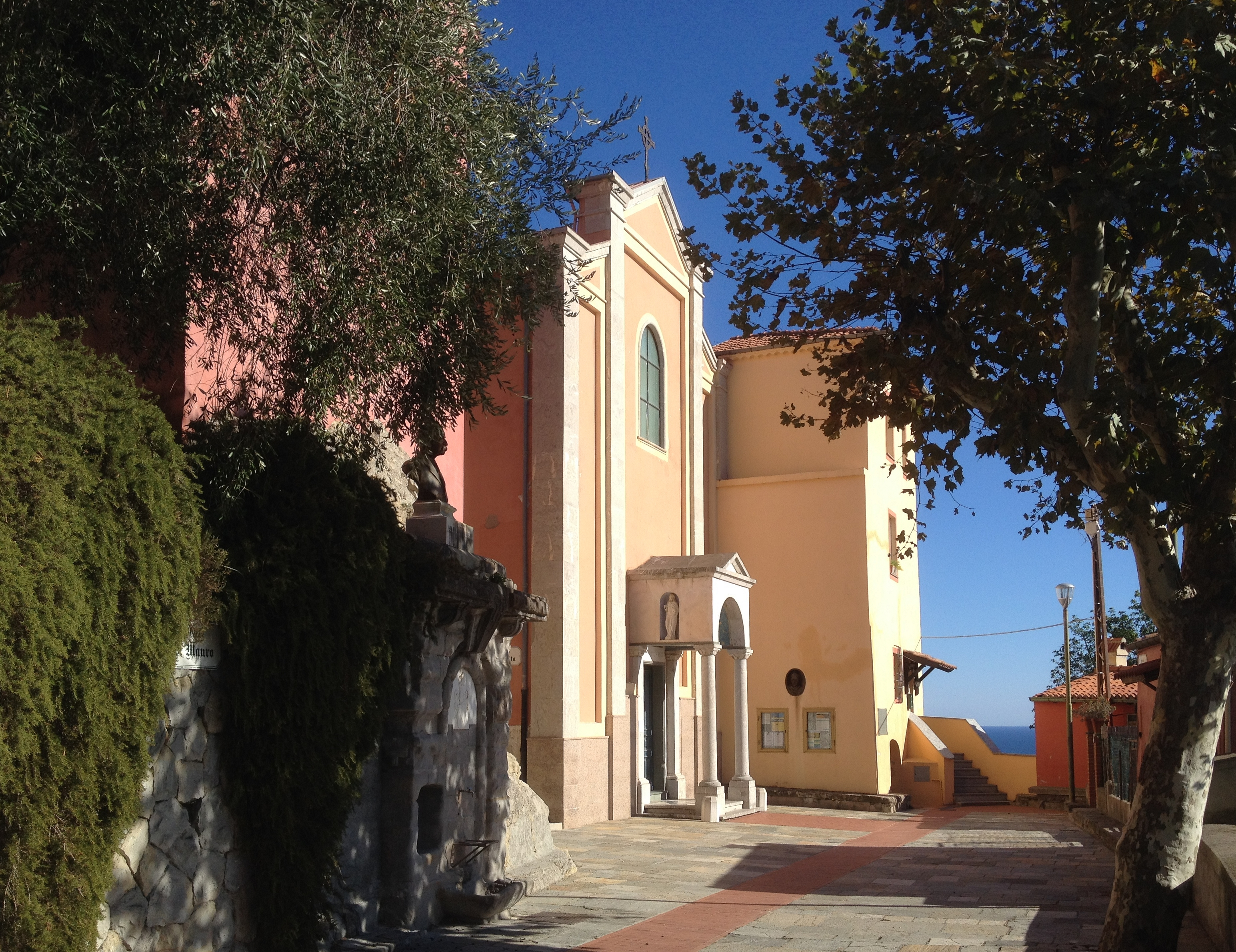 La Mortola, Piazza San Mauro, Chiesa di San Mauro